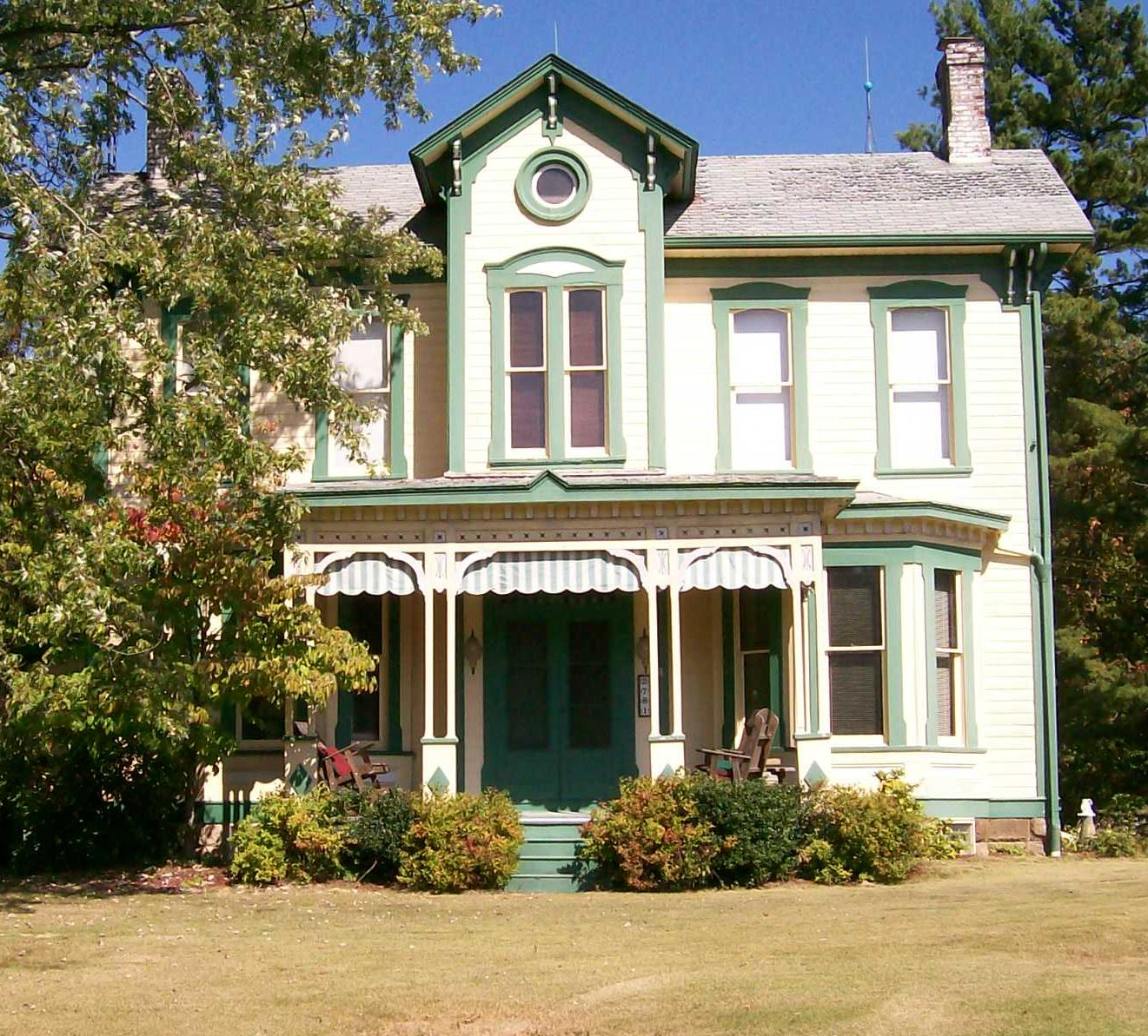 The Barnett-Criss House between New Concord and Cambridge on Ohio State Route 22.